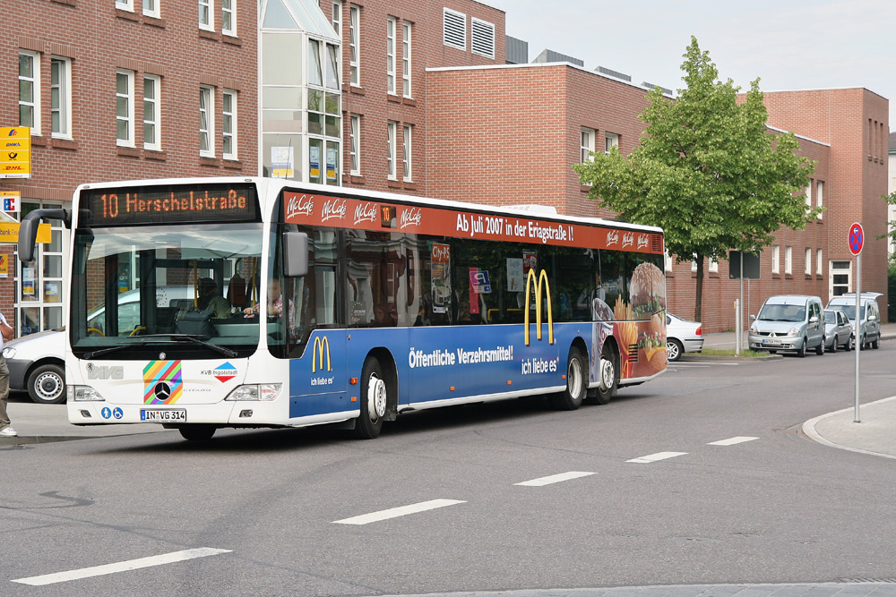 A bus of the public transport authority of Ingolstadt, Germany.